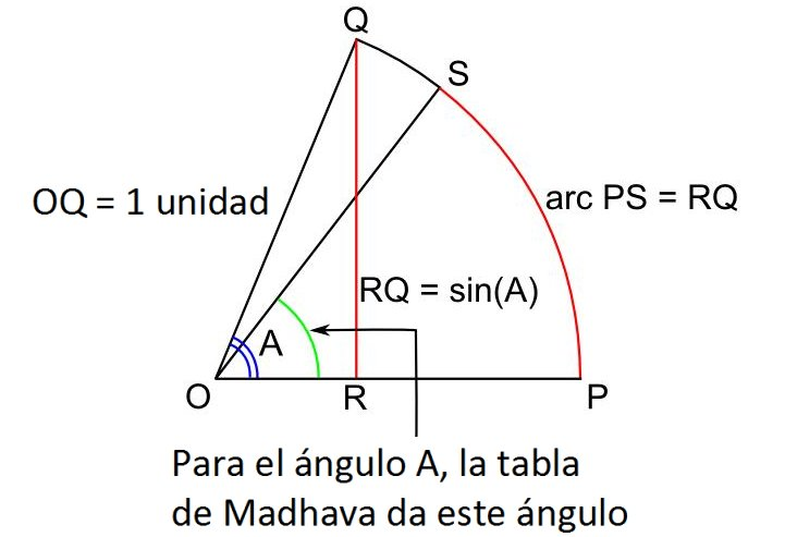 An image created by me for explaining the numbers specified in Sangamagrama Madhava's sine table.